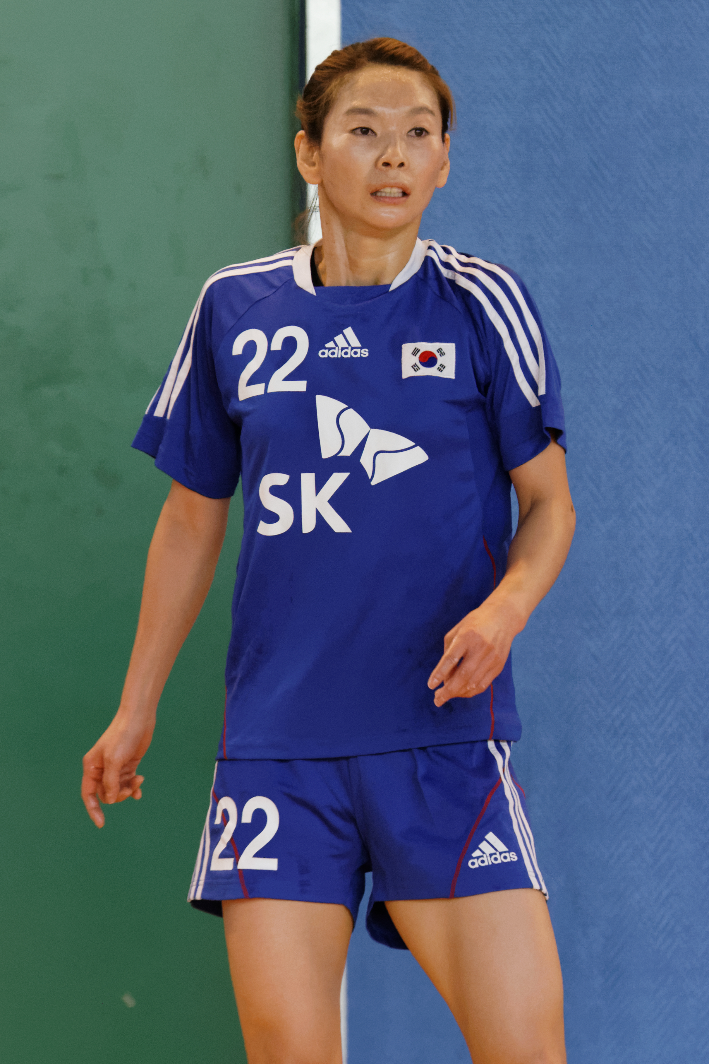 Issy Paris Hand - South Korea, 12 August 2014